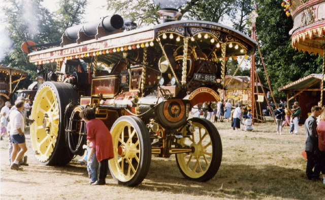 One of the many fabulous Traction Engines on display. The late Fred Dibnah attended this fair many times